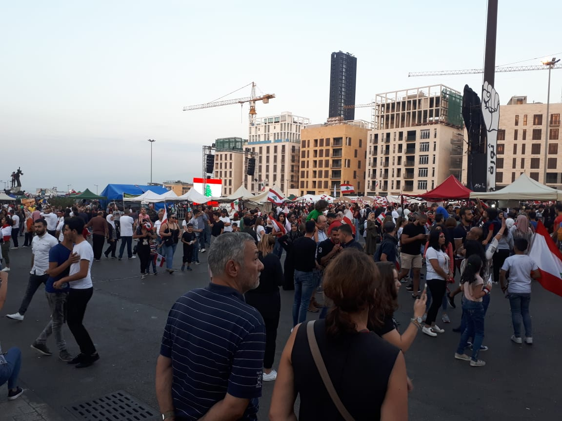 2019 Lebanese protests Beirut, 10 November 2019